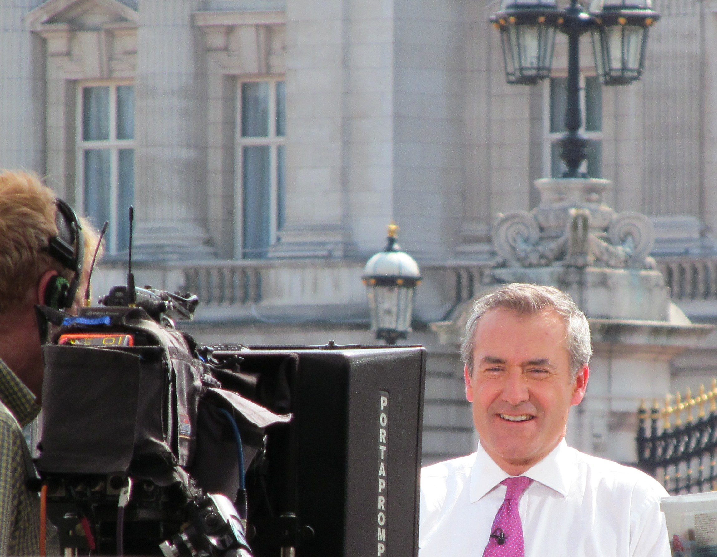 London July 22 2013 083 Buckingham Palace (4) Colin Brazier hosts Sky News